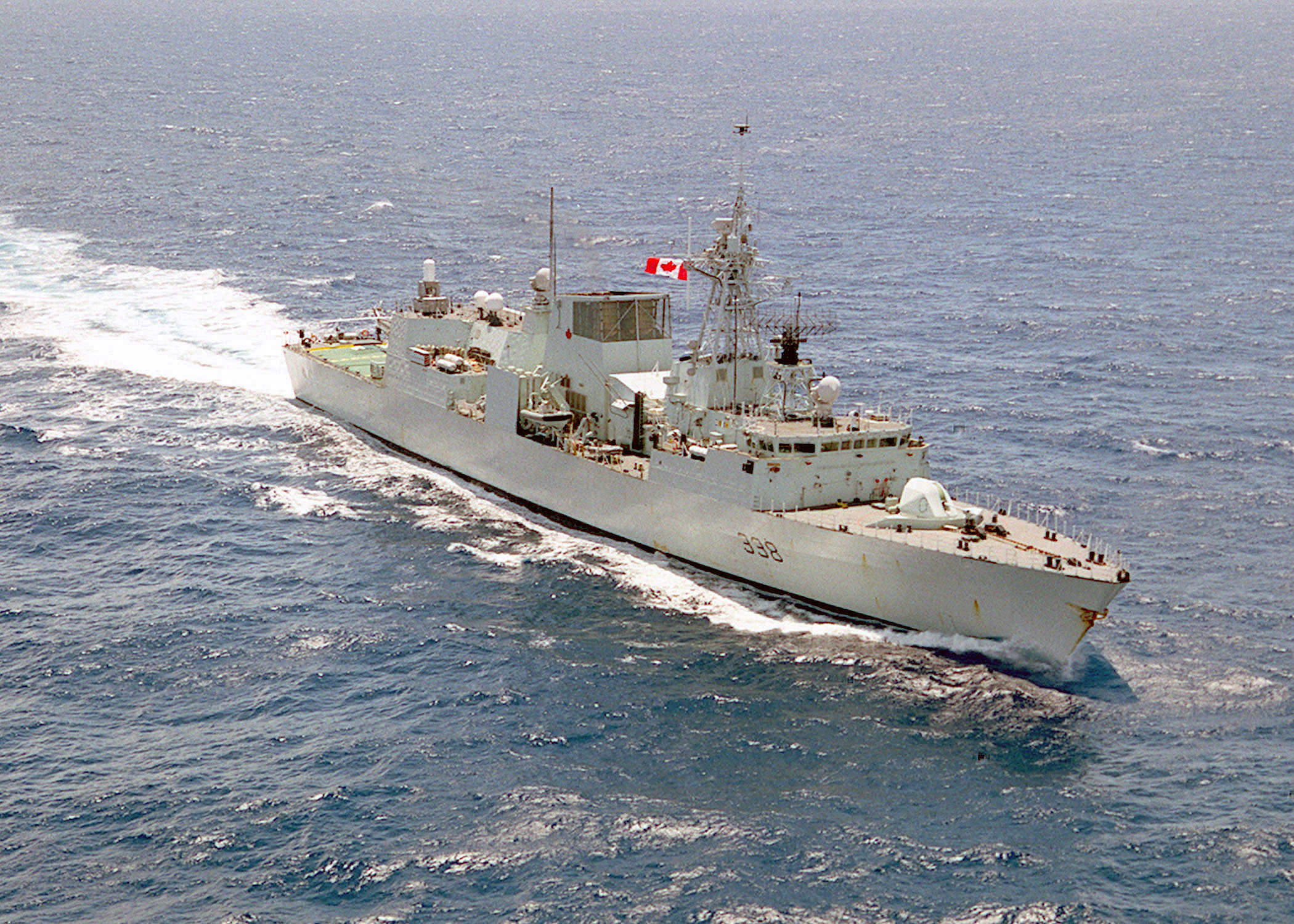 The Royal Canadian Navy frigate HMCS Winnipeg (FFH 338) underway in the South Pacific Ocean, in 2001.